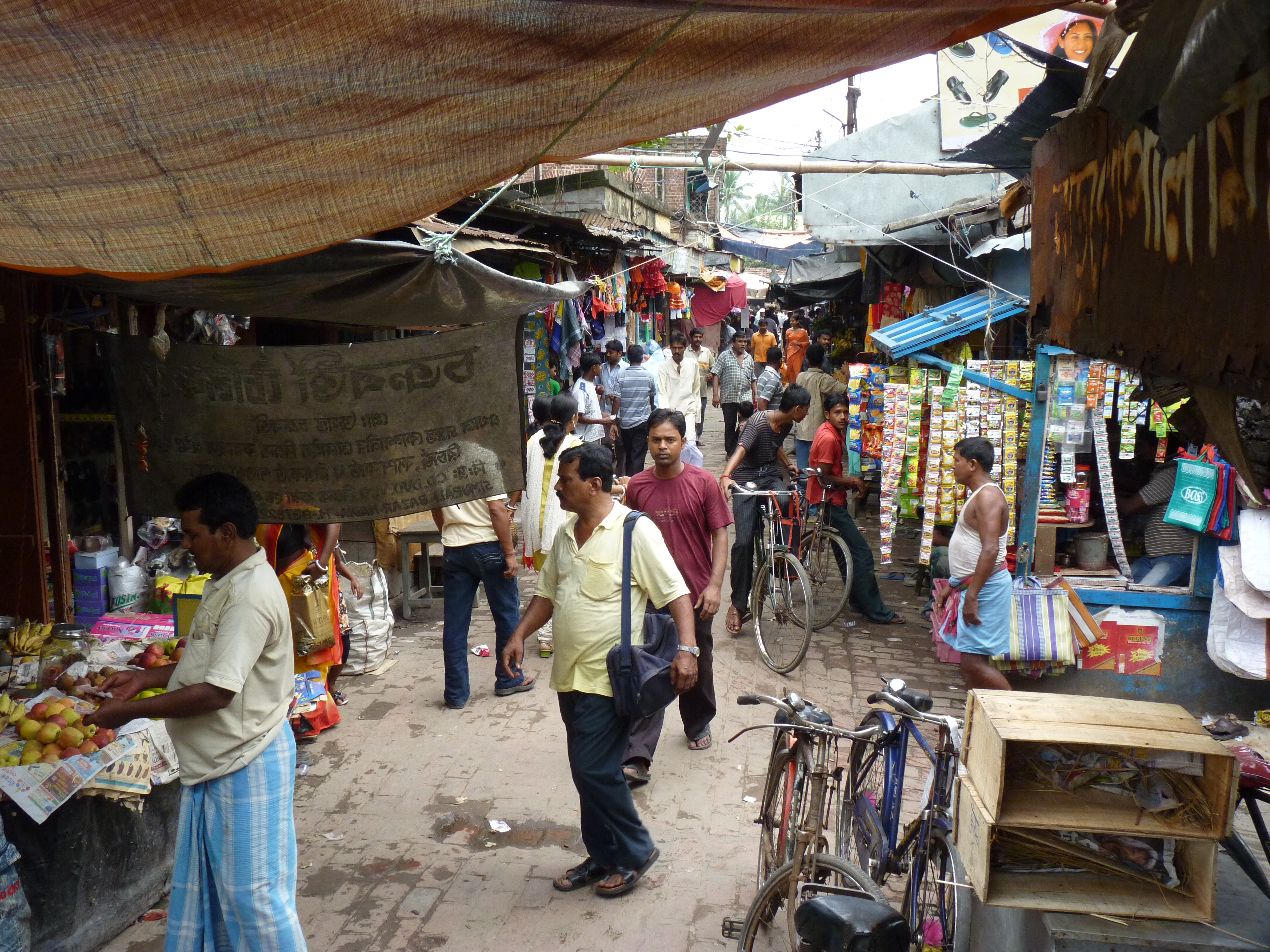 Simurali (PIN code: 741248) or Shimurali village is under Kalyani constituency of West Bengal, India. It has railway station, Simurali (code: SMX) in between Madanpur (code: MPJ) and Palpara stations in Sealdah (code: SDAH) main line.